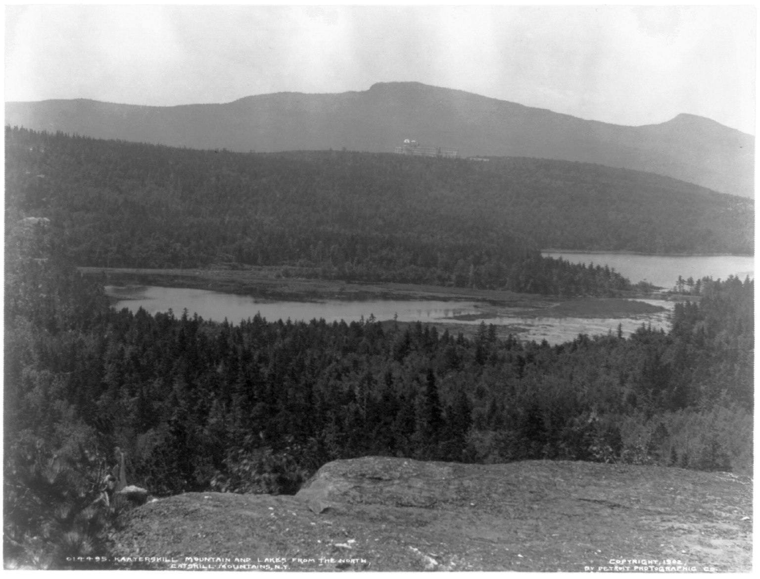 Title: Kaaterskill Mountain and lakes from the north, Catskill Mountains, NY Abstract/medium: 1 photograph : print.